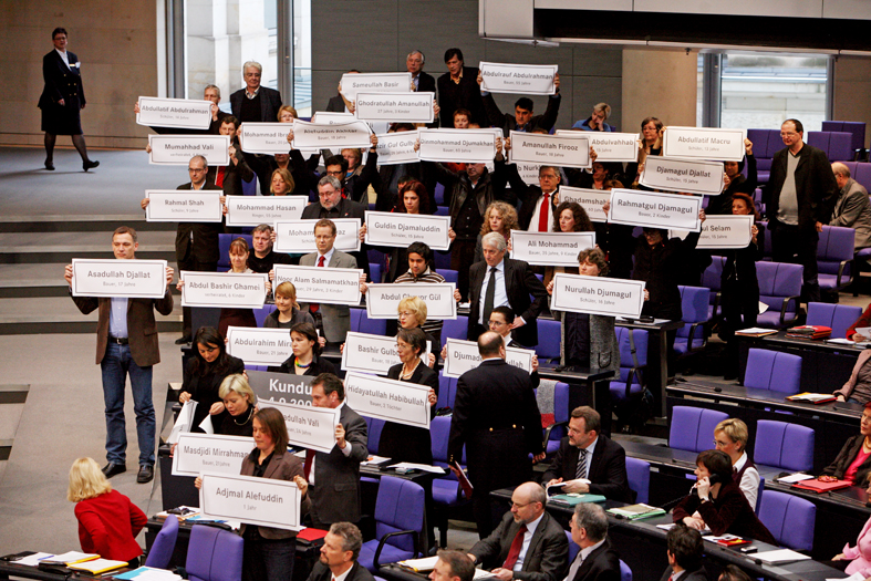 German Bundestag members of the party Die Linke (The Left) protesting against the Bundeswehr operation in Afghanistan, 26 February 2010. The banners bear names of civilian victims of the Kunduz airstrike of 4 September 2009. The MPs were excluded from the session.